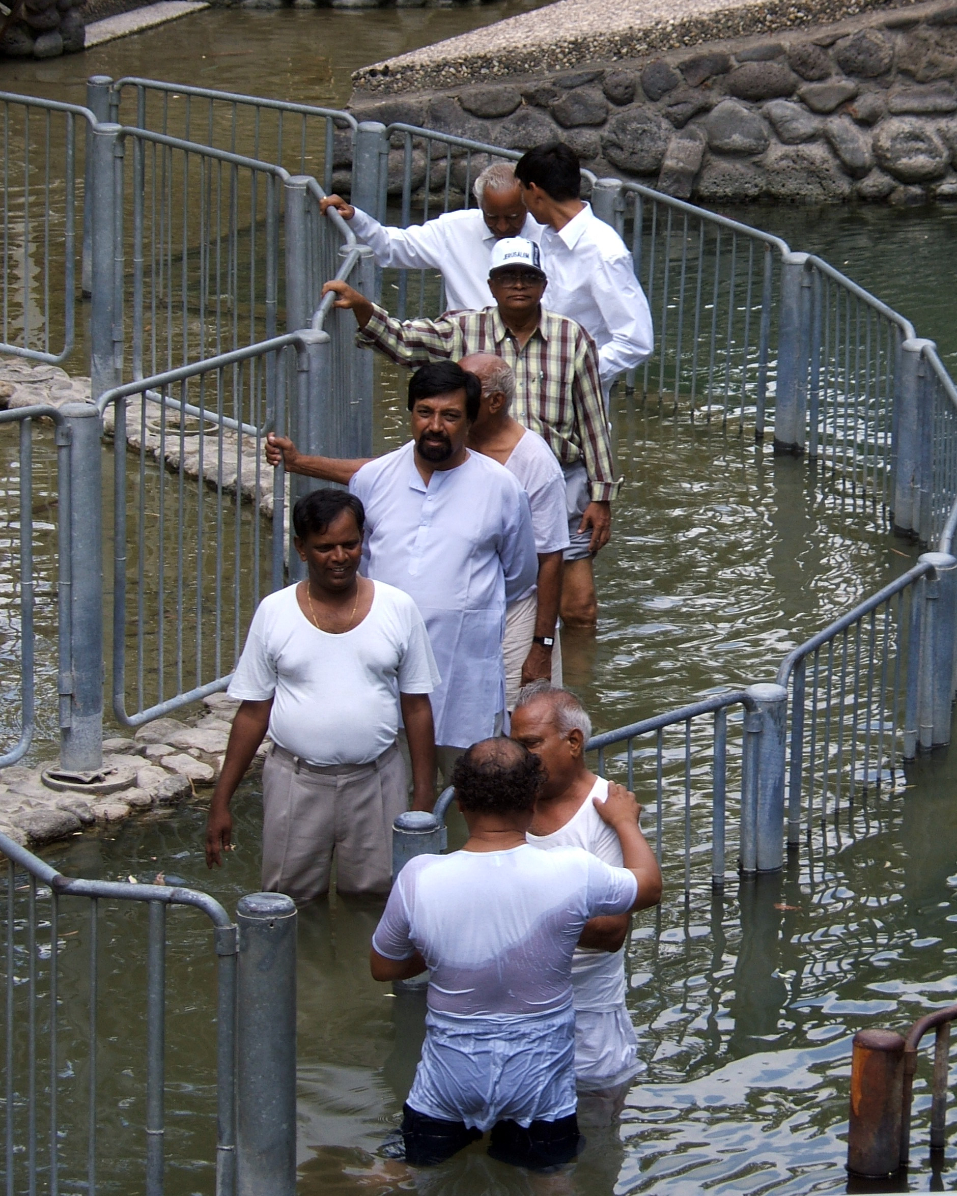 A line of people awaiting baptism in the Jordan River at Kinneret, Israel. Taken by Bantosh (myself).